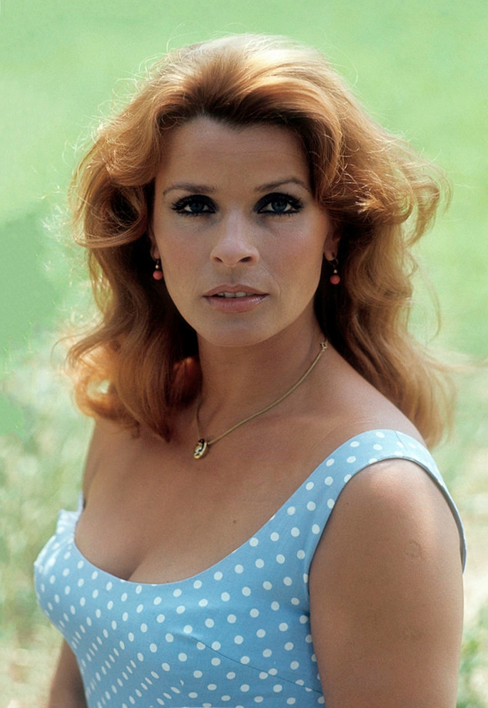 Half-length portrait of the Austrian actress Senta Berger, who looks at the camera with a seductive expression.